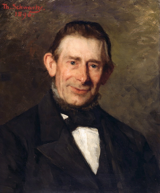 Nicolaas Beets (???? doubtful, this is not the poet Nicolaas Beets at age 82)